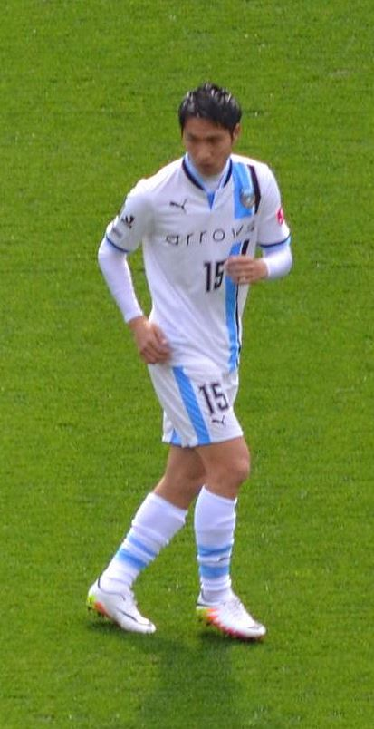 Riki Harakawa during the Tamagawa Clasico - the match between FC Tokyo and Kawasaki Frontale - played at Ajinomoto Stadium 16th April 2016.